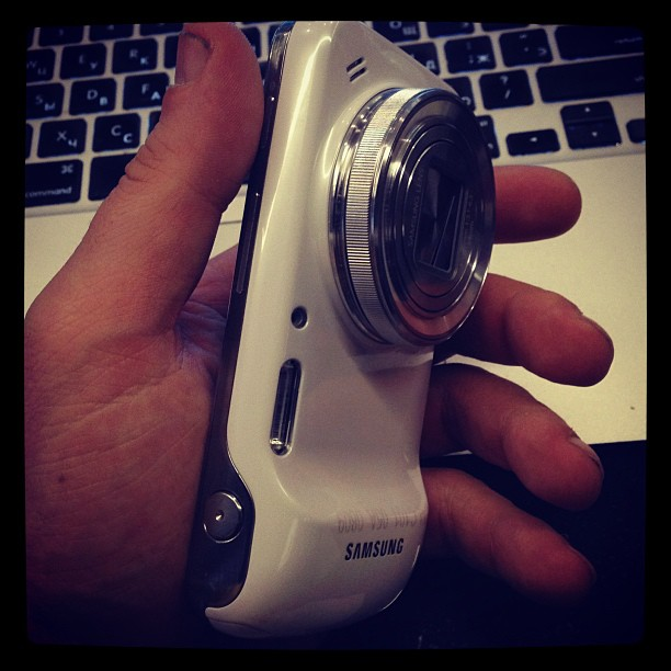 Galaxy S4 Zoom from Samsung